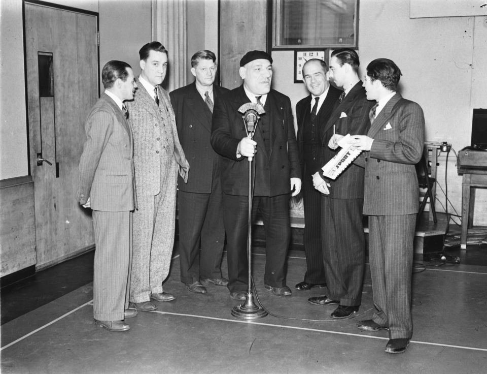 The wrestler Maurice Tillet nicknamed "The Angel" interviewed by the presenter Michel Normandin (second from the right) to five other guests in the studios of radio station C.H.L.P. in Montreal.